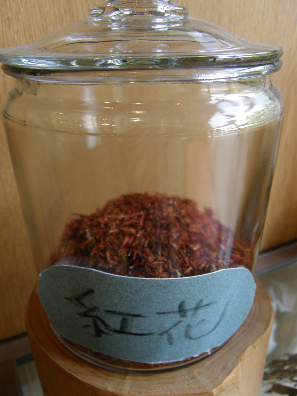 Carthamus tinctorius、Safflower、紅花